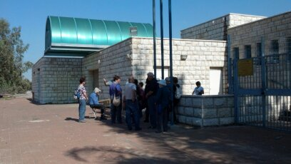 Rosh Ha'ayin south old railway station